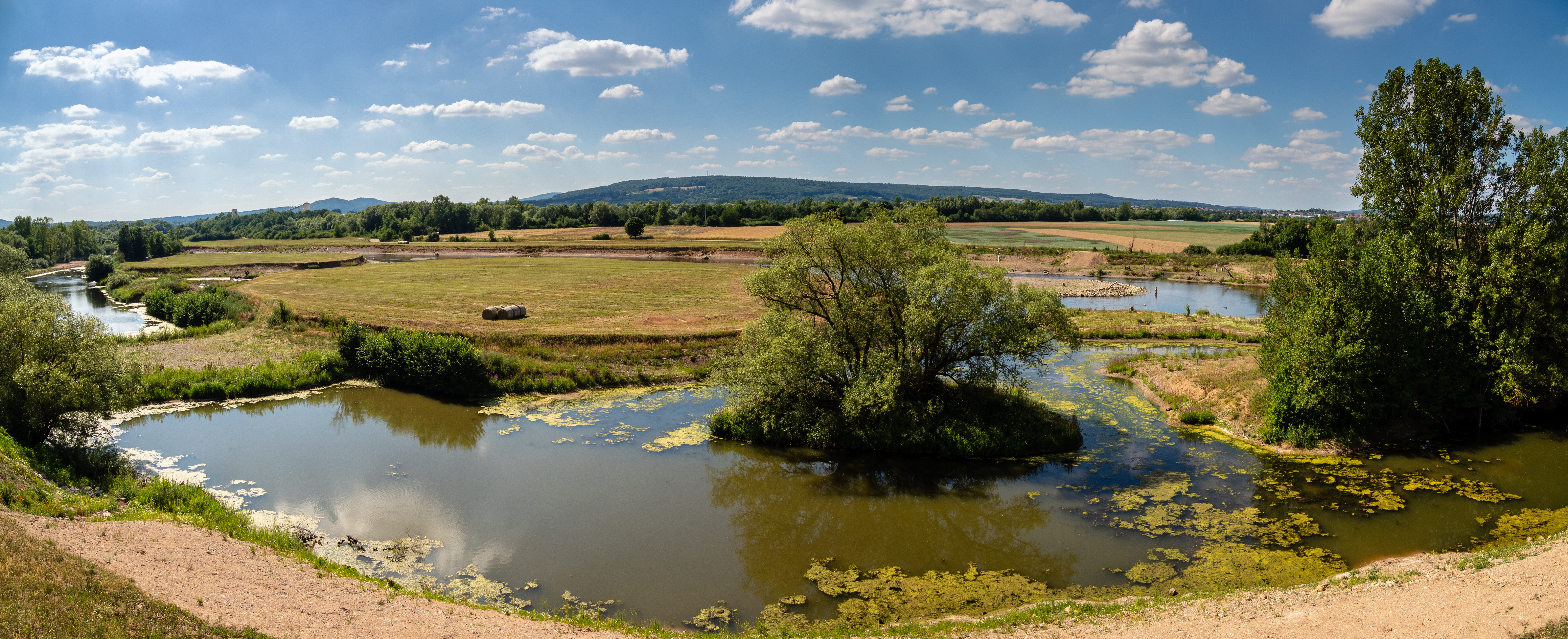 Renatured section of the Main river between Breitengüßbach and Ebing